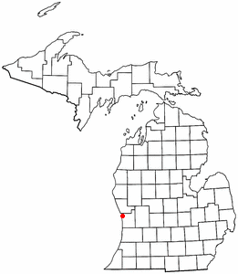 Map of U.S. state of Michigan with dot on Grand Haven, Michigan